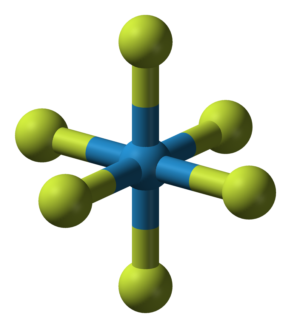 Tungsten hexafluoride, 3D balls